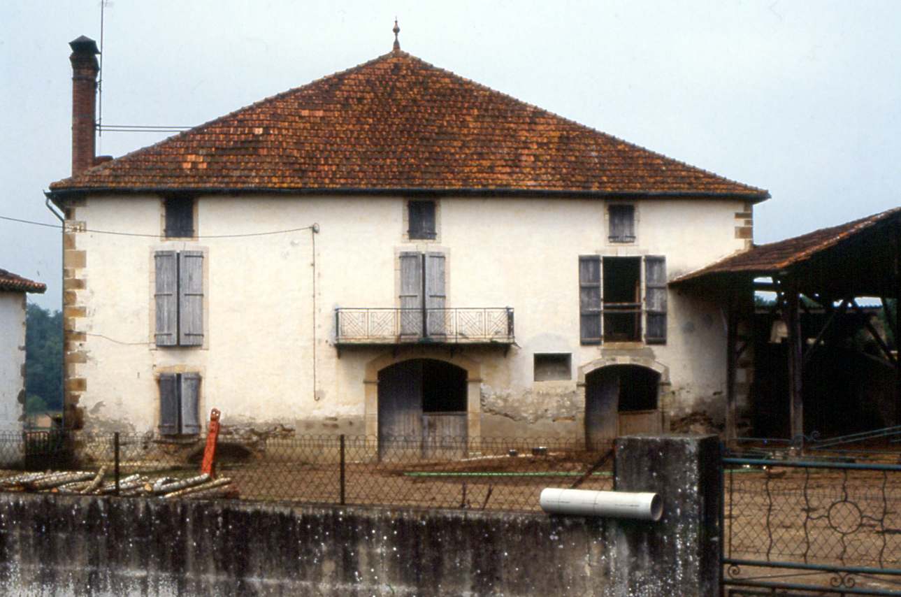 Farm house of the traditional Mediterranian Tree Flour Type in the Pyrénées-Atlantiques